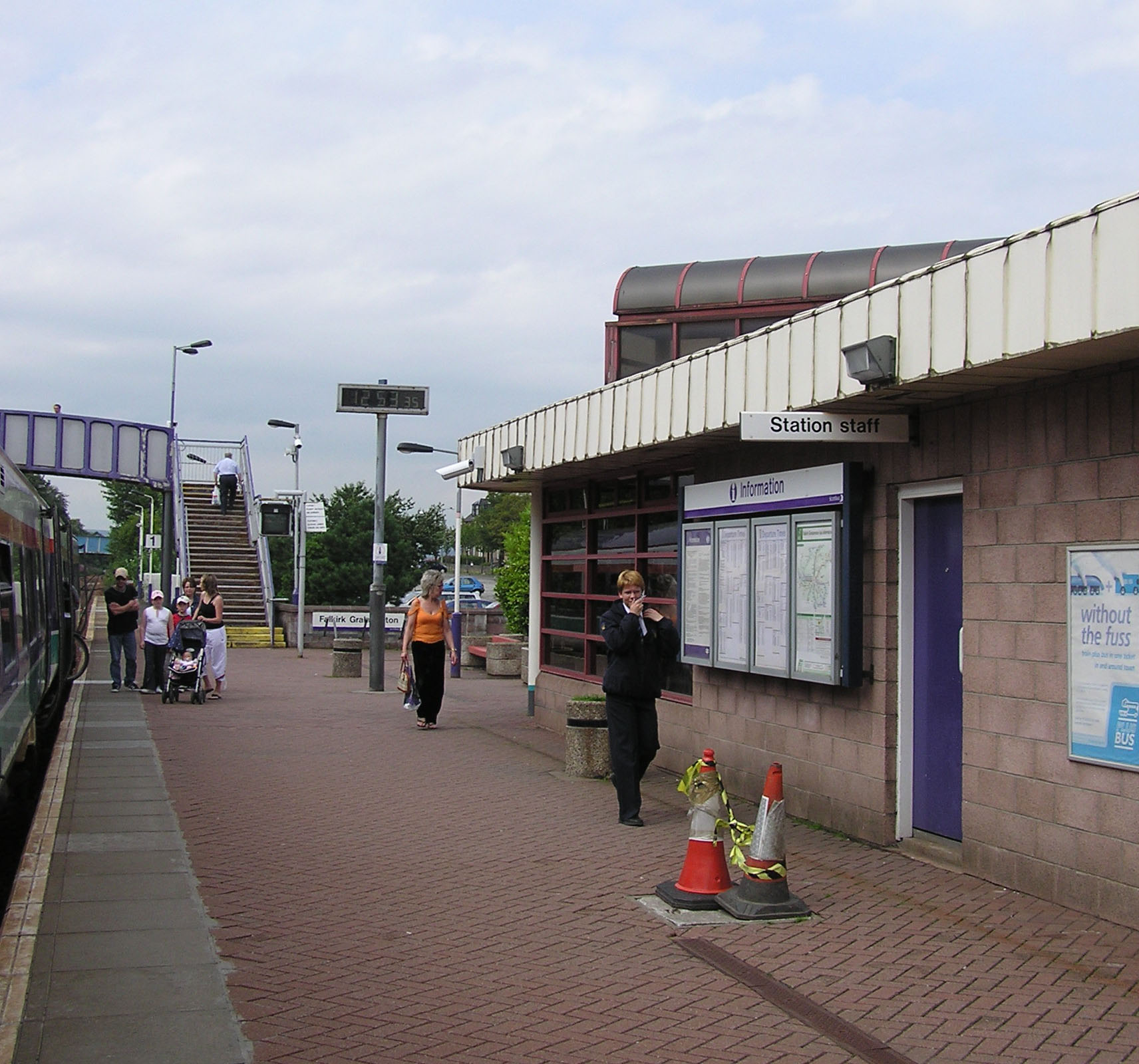 The Falkirk Grahamston railway station in Falkirk, Scotland. Photo taken by Finlay McWalter on the 7th of August 2004.